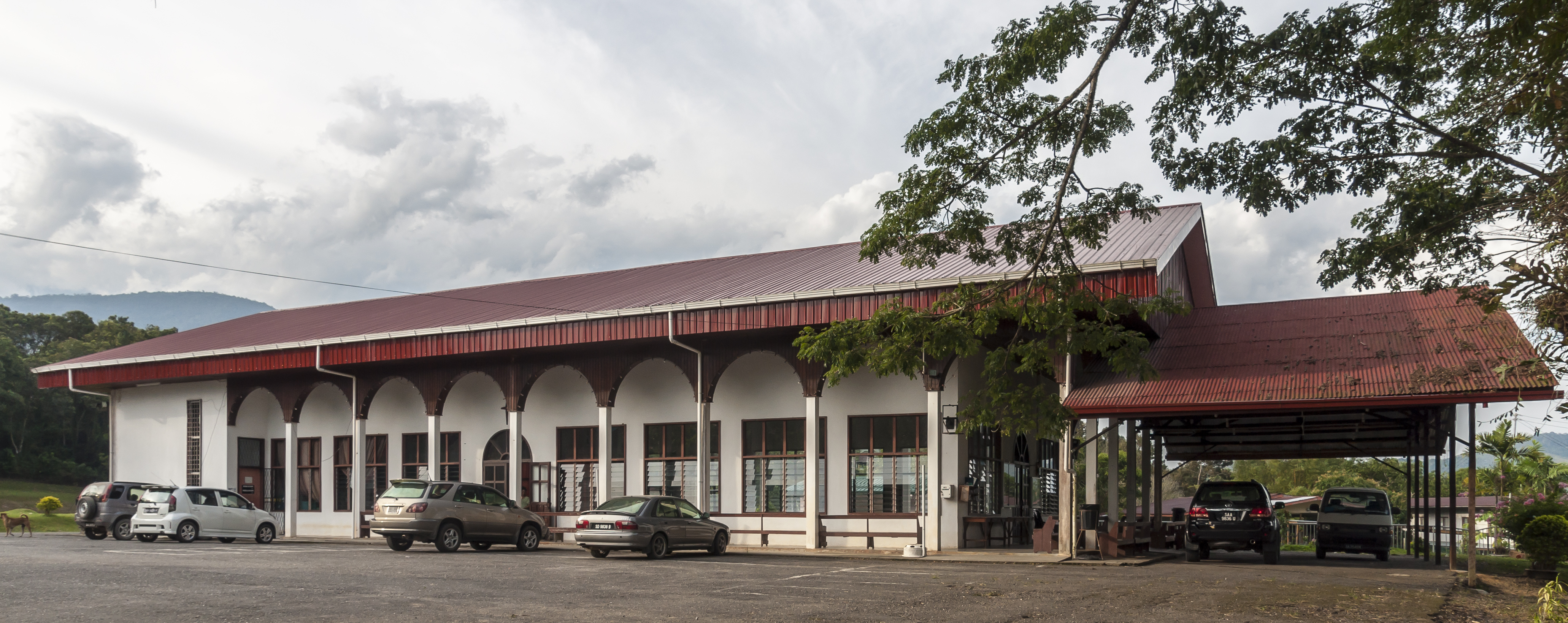 Gereja Sidang Injul Borneo (SIB) in Ranau, Sabah